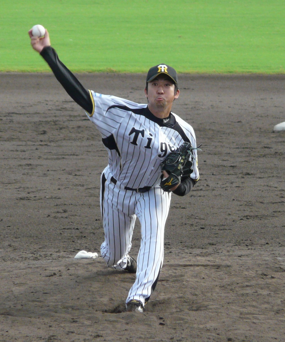 HT-Syunsuke-Ishikawa20120920